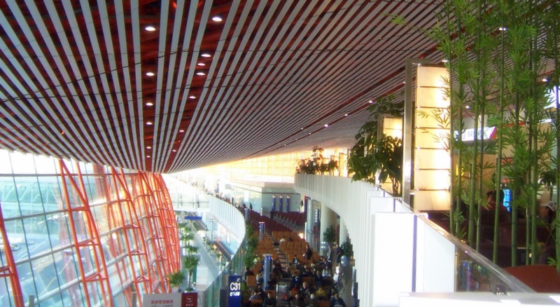 Boarding area of T3 C at Beijing Capital International Airport